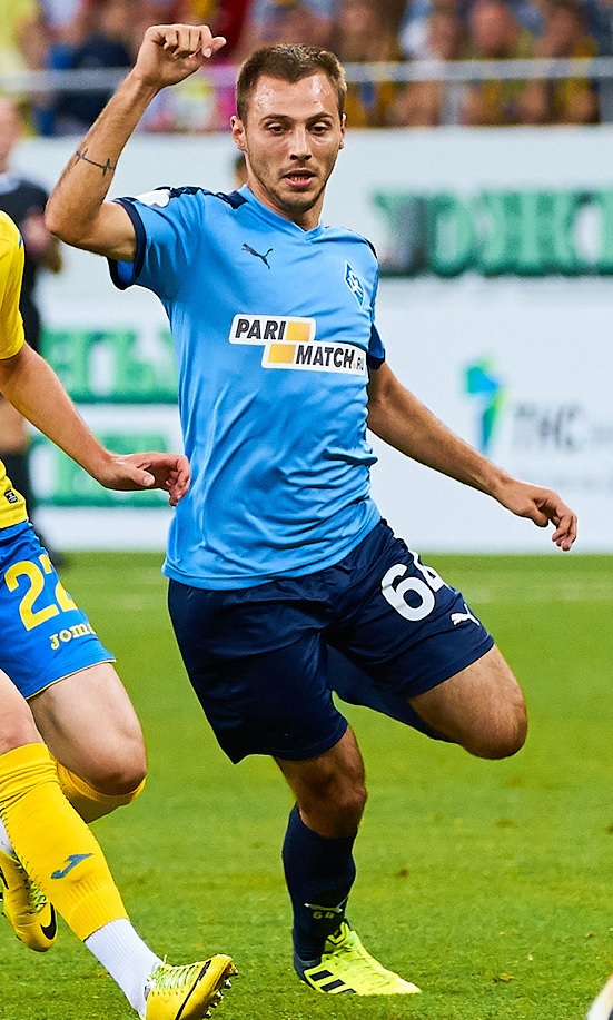 Oleg Lanin with FC Krylia Sovetov Samara in a game against FC Rostov.